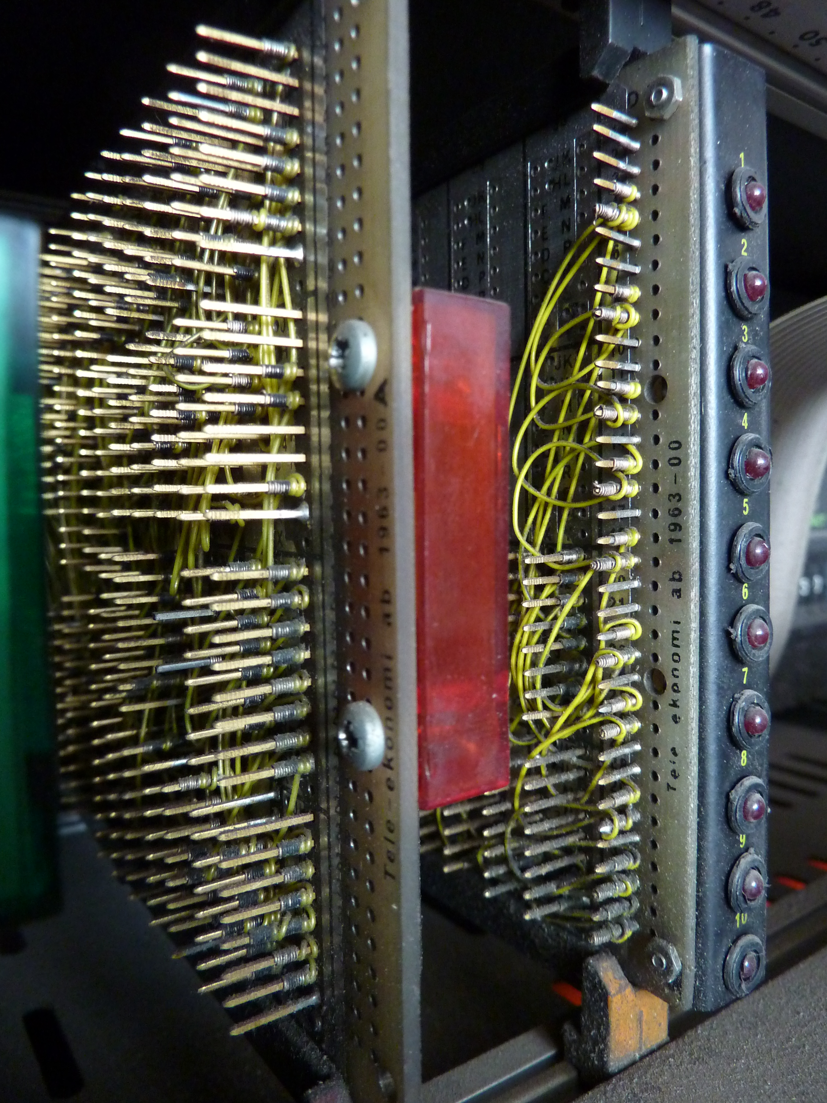 wire wrapped connections in WAMAC machinery for newspapers counter equipment, manufactured in the 1970's